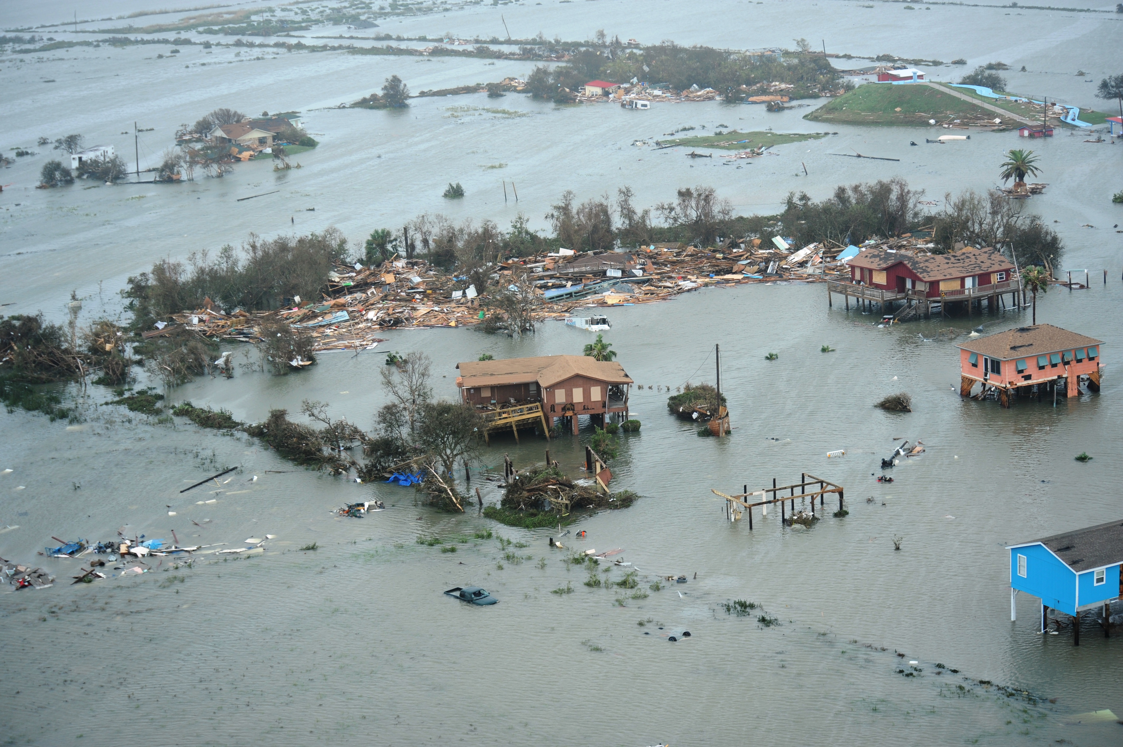 An aerial view from a U.S. Air Force helicopter is shown in Galveston, Texas, September 13th, 2008. The U.S. Air Force is contributing to the Hurricane Ike humanitarian assistance operations being led by the Federal Emergency Management Agency in conjunction with the Department of Defense.